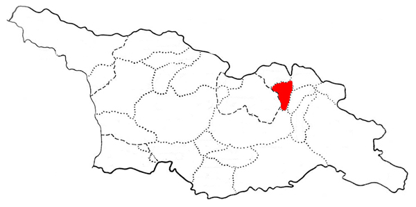 Map of Mtiuleti, historical region of Georgia